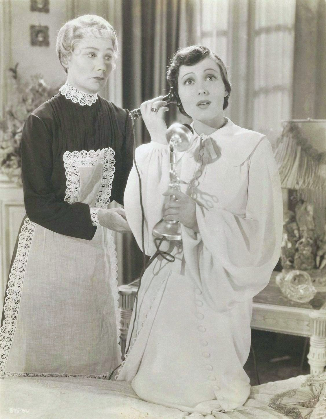 Marcelle Corday (left) and Luise Rainer in The Great Ziegfeld (1936) - publicity still (original image damaged, modified and cropped)